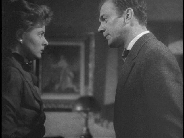 This screenshot shows Ingrid Bergman and Joseph Cotten, where he is informing her of what has been happening.